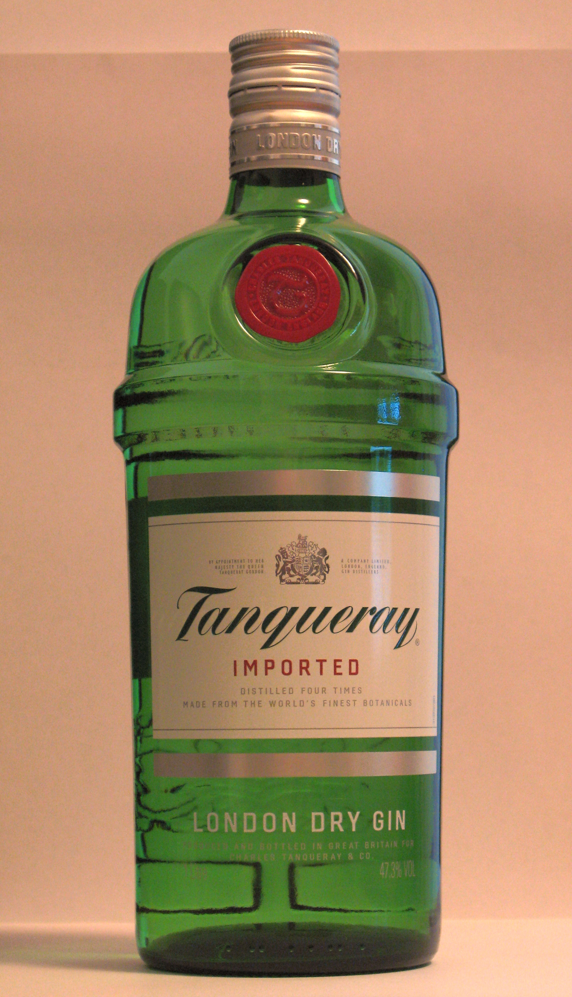 A bottle of Tanqueray gin